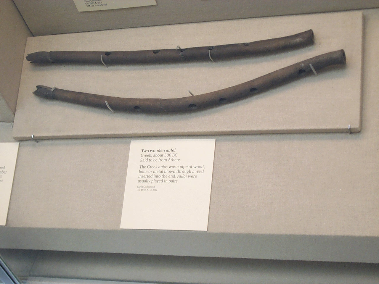 Two ancient Greek auloi. Made of wood around 500 BCE.